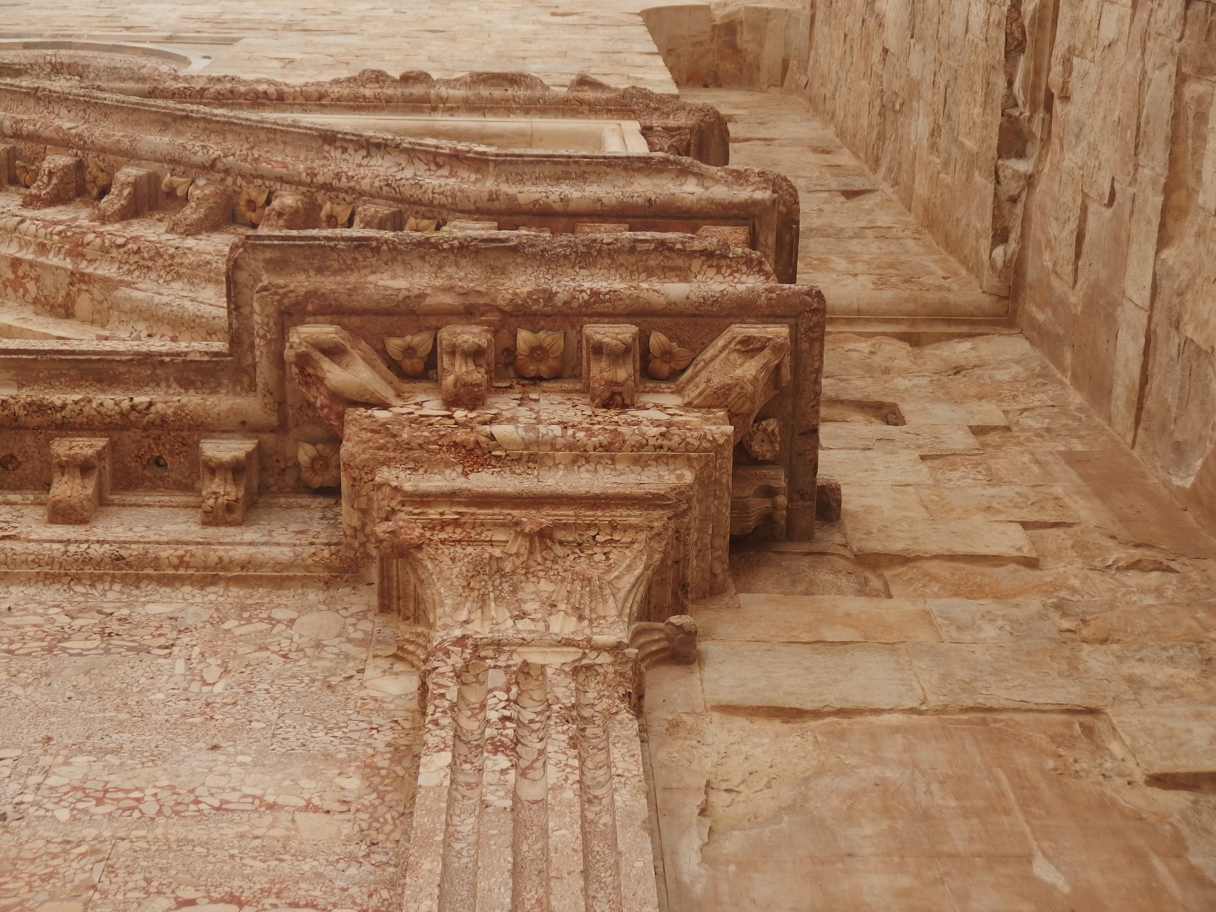 Castel del Monte, Apulia, Italy.